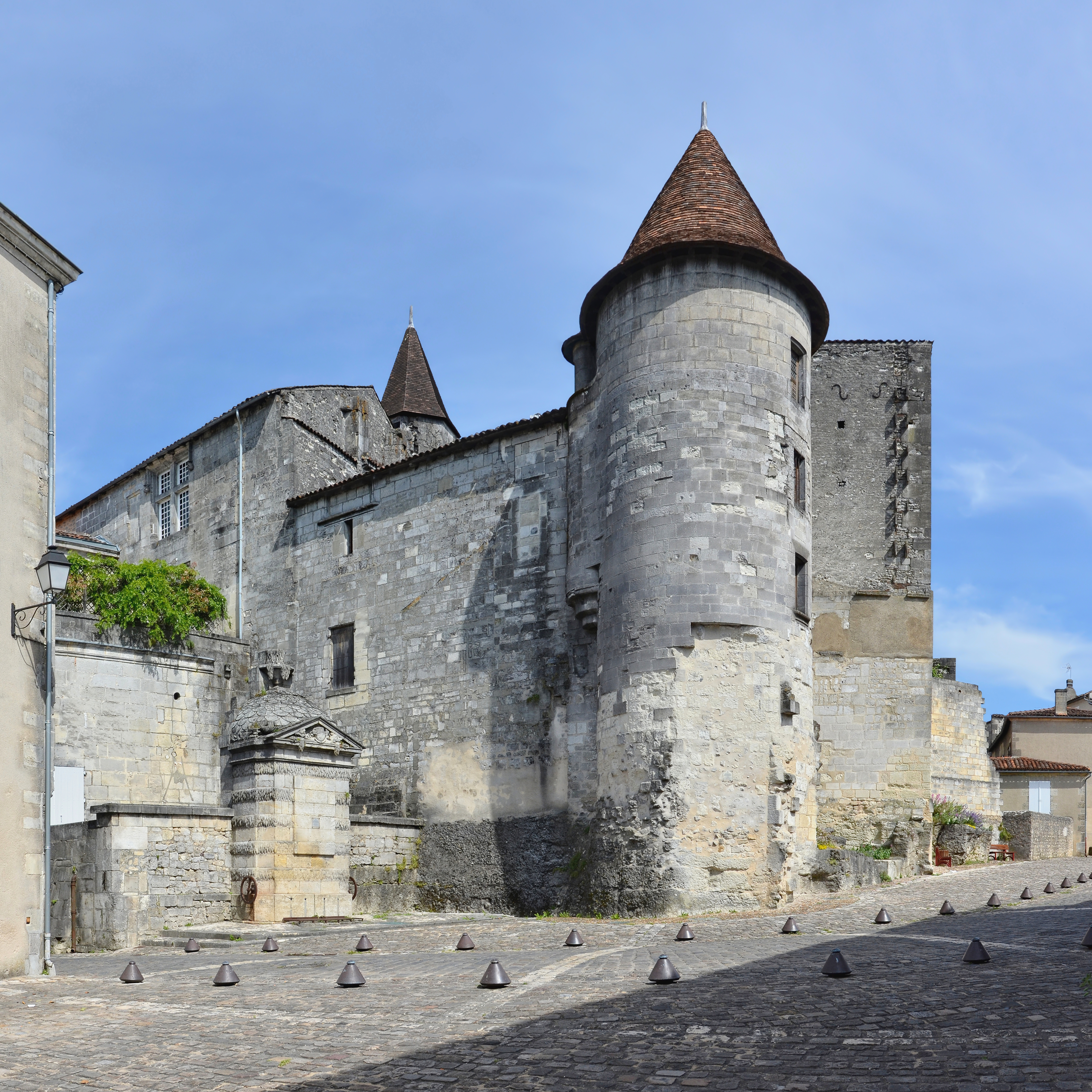 South turret of the castle and François Ier fountain; Cognac, Charente, France.